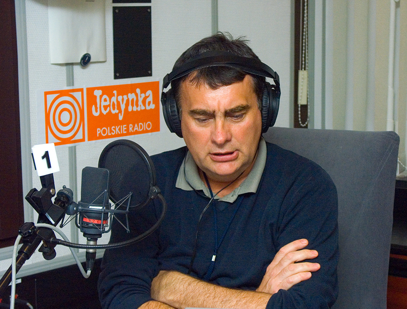 Paweł Sztompke, Polish radio journalist, picture taken in Polish Radio Station no 1.